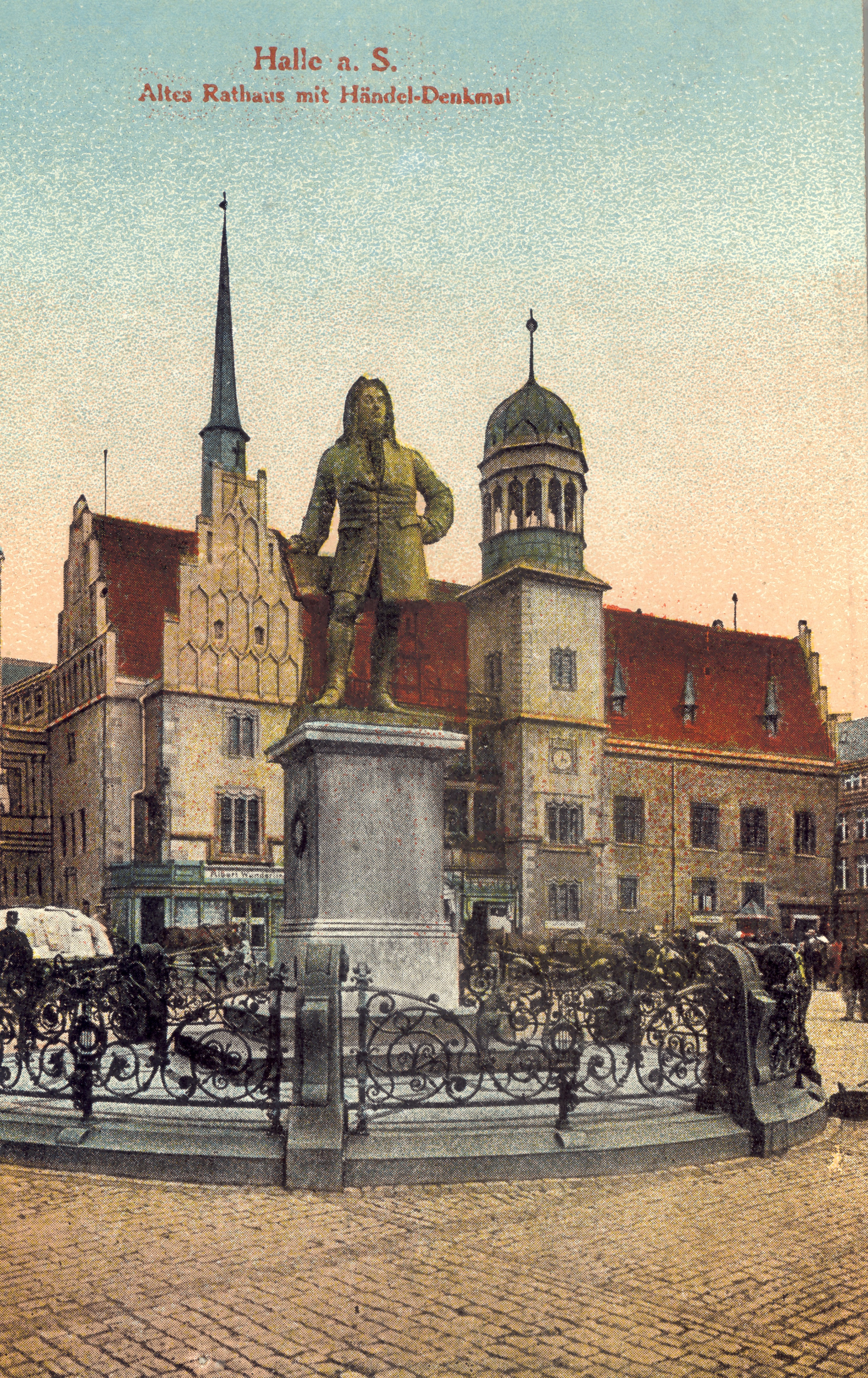 Townhall in Halle (Saale), Germany